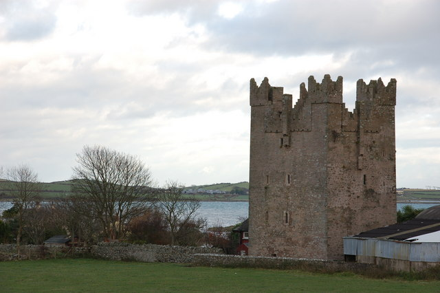 Kilclief Castle, a tower-house castle beside Strangford Lough and 2.5 miles (4km) south of the village of Strangford, County Down, Northern Ireland.